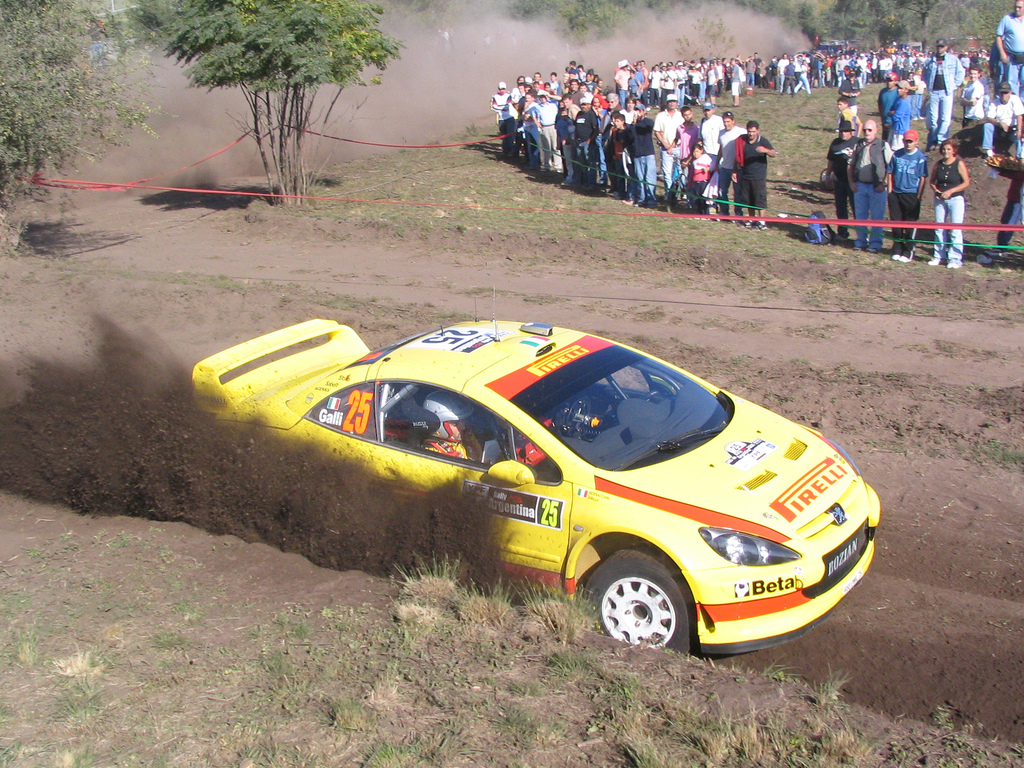 Gigi Galli driving his Peugeot 307 WRC at the 2006 Rally Argentina shakedown.